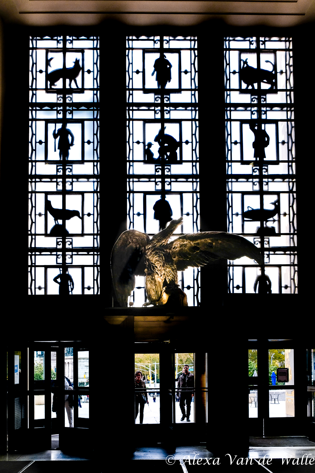 Interior of Brooklyn Public Library Entrance from Grand Army Plaza. Alexa Van de Walle, October, 14, 2018Site: Brooklyn Public Library, Central Library, Grand Army Plaza, Brooklyn, NY